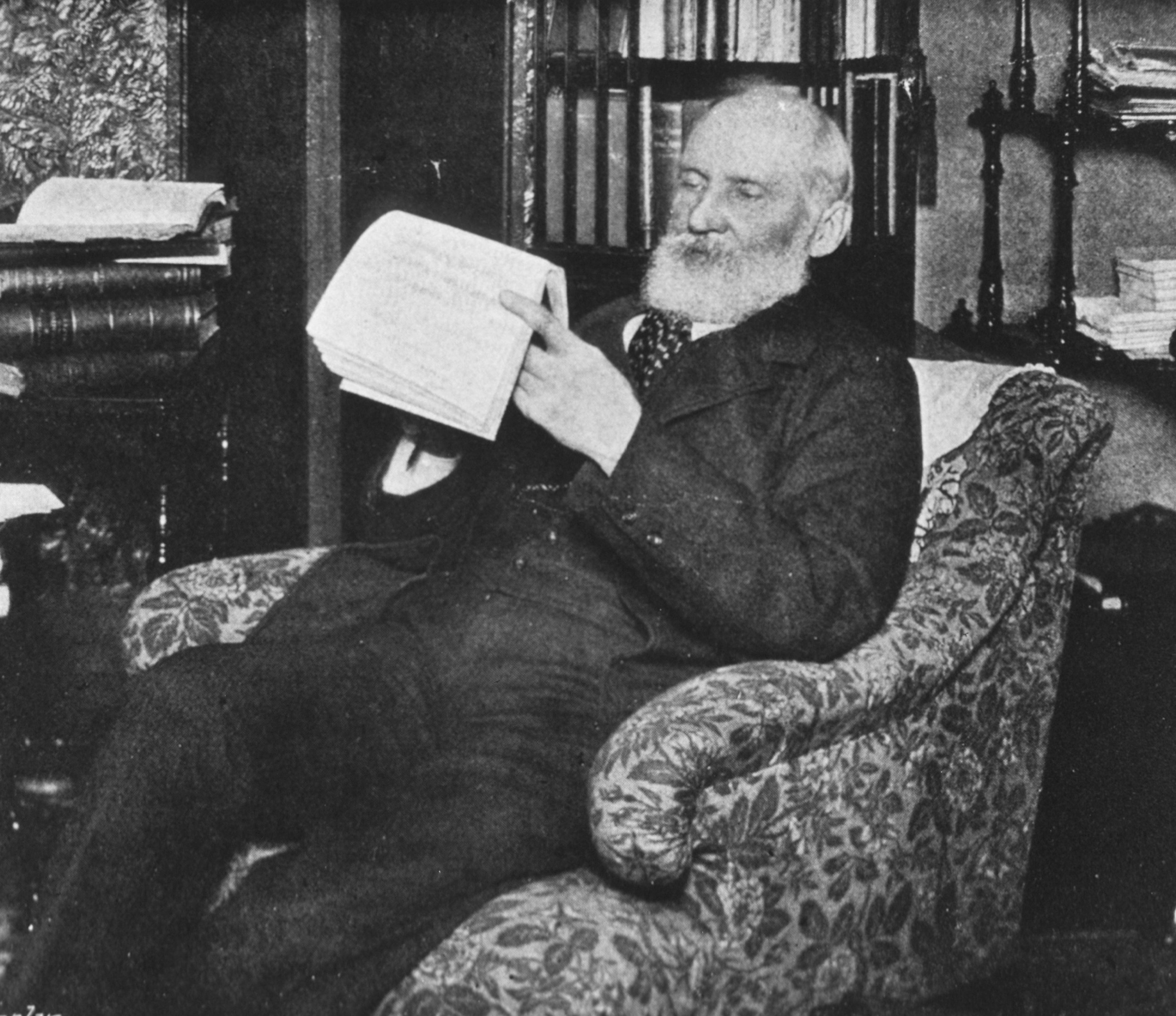 William Thomson, 1st Baron Kelvin